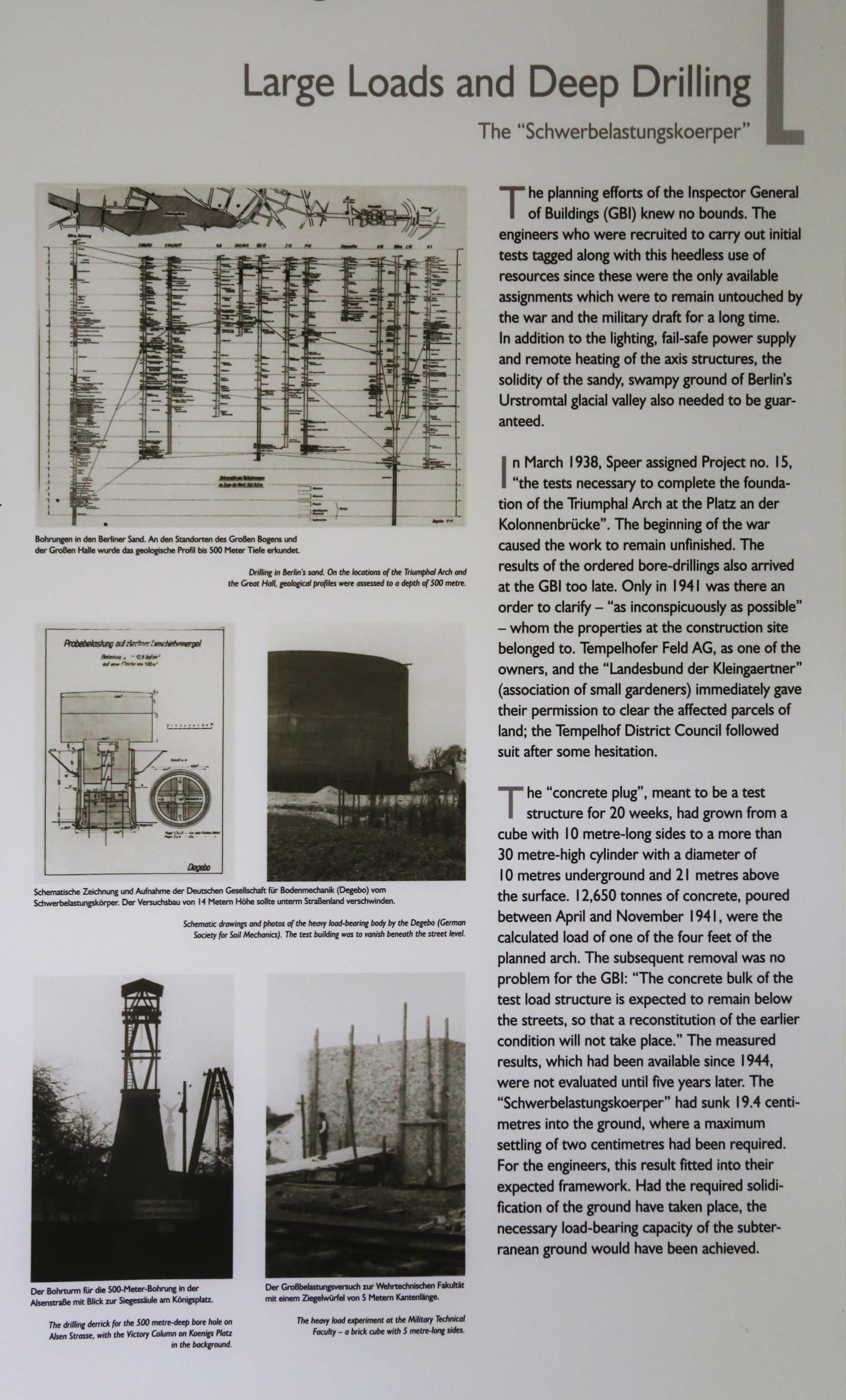 A poster inside the Schwerbelastungskoerper giving information about Albert Speer's construction plans for the new Triumphal Arch.